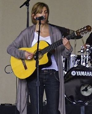 The soundcheck Lexi and I walked upon for the National Sor Juana Festival.